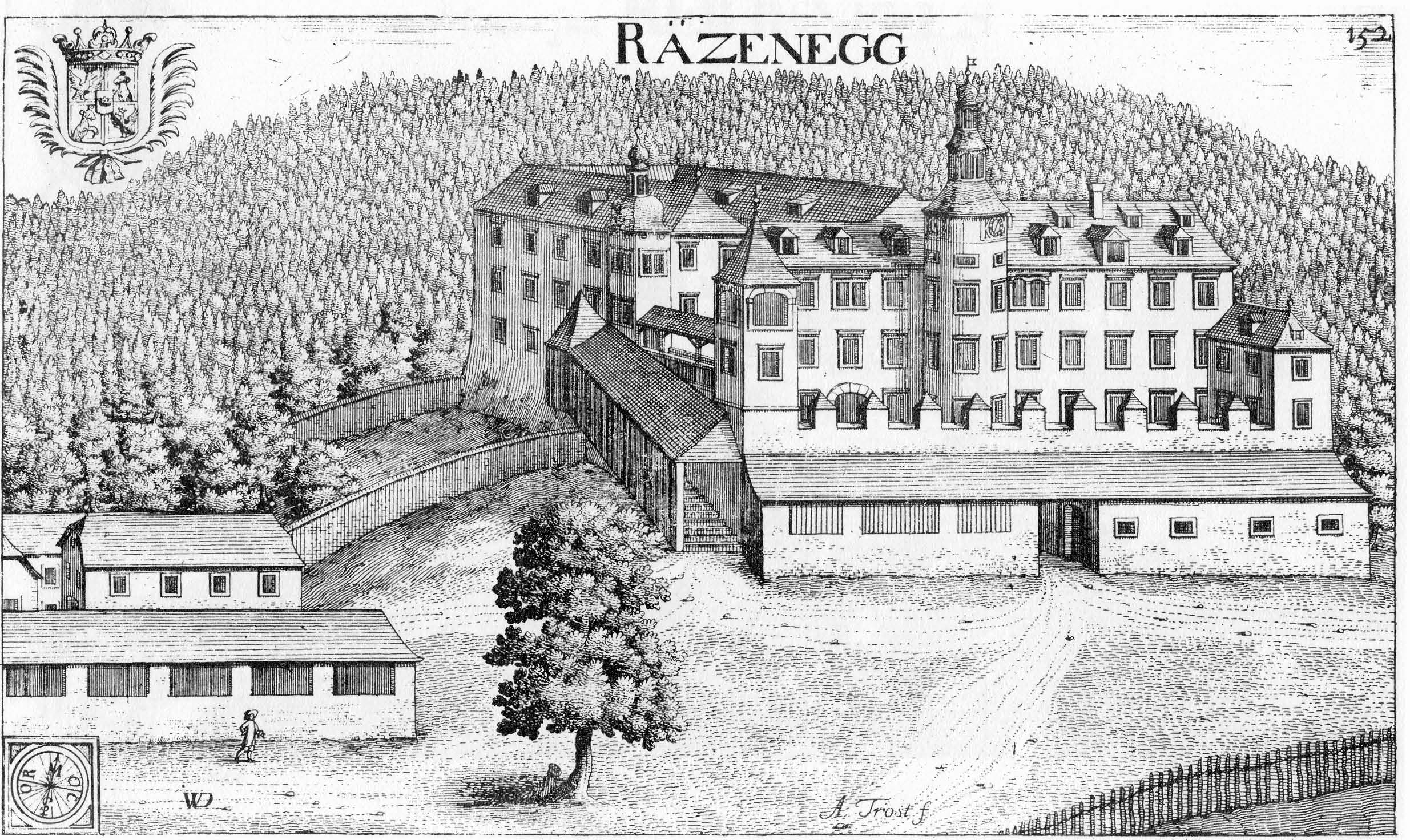 Castle of Ratzenegg in Moosburg (Kärnten) / Carinthia / Austria / European Union.